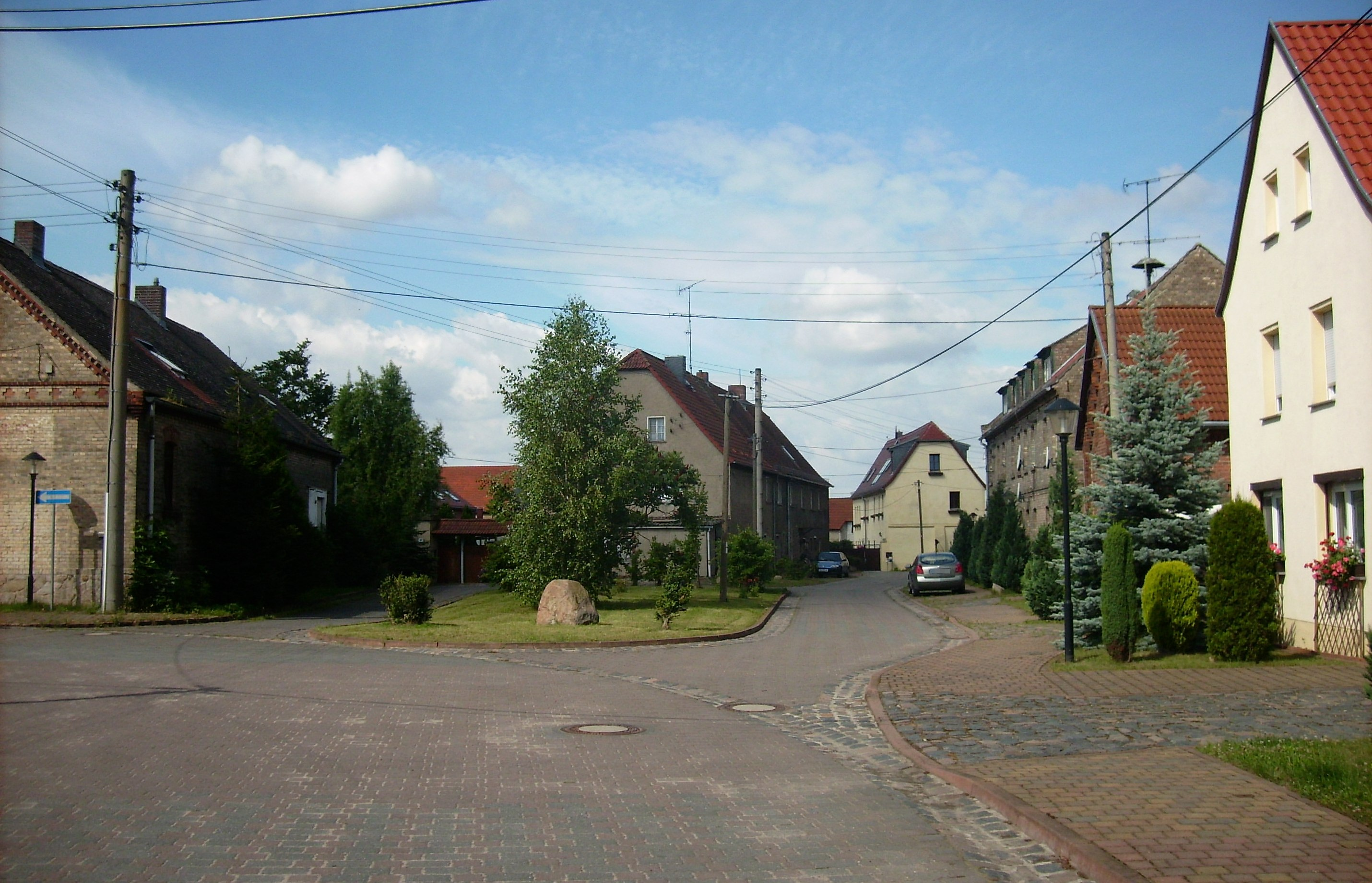 Postplatz in Gottenz (Kabelsketal, district of Saalekreis, Saxony-Anhalt)